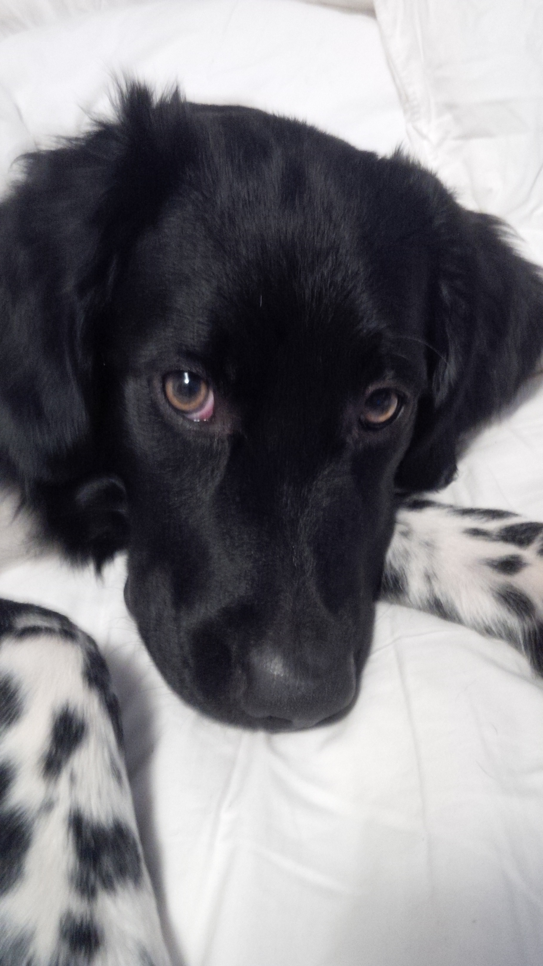 10 month old adolescent Stabij